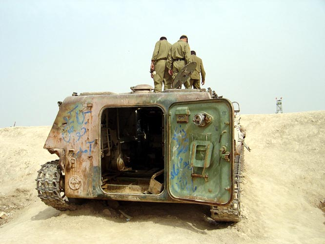 Disabled Iraqi Type 63 APC in Shalamcheh desert on the border of Iraq and Iran.